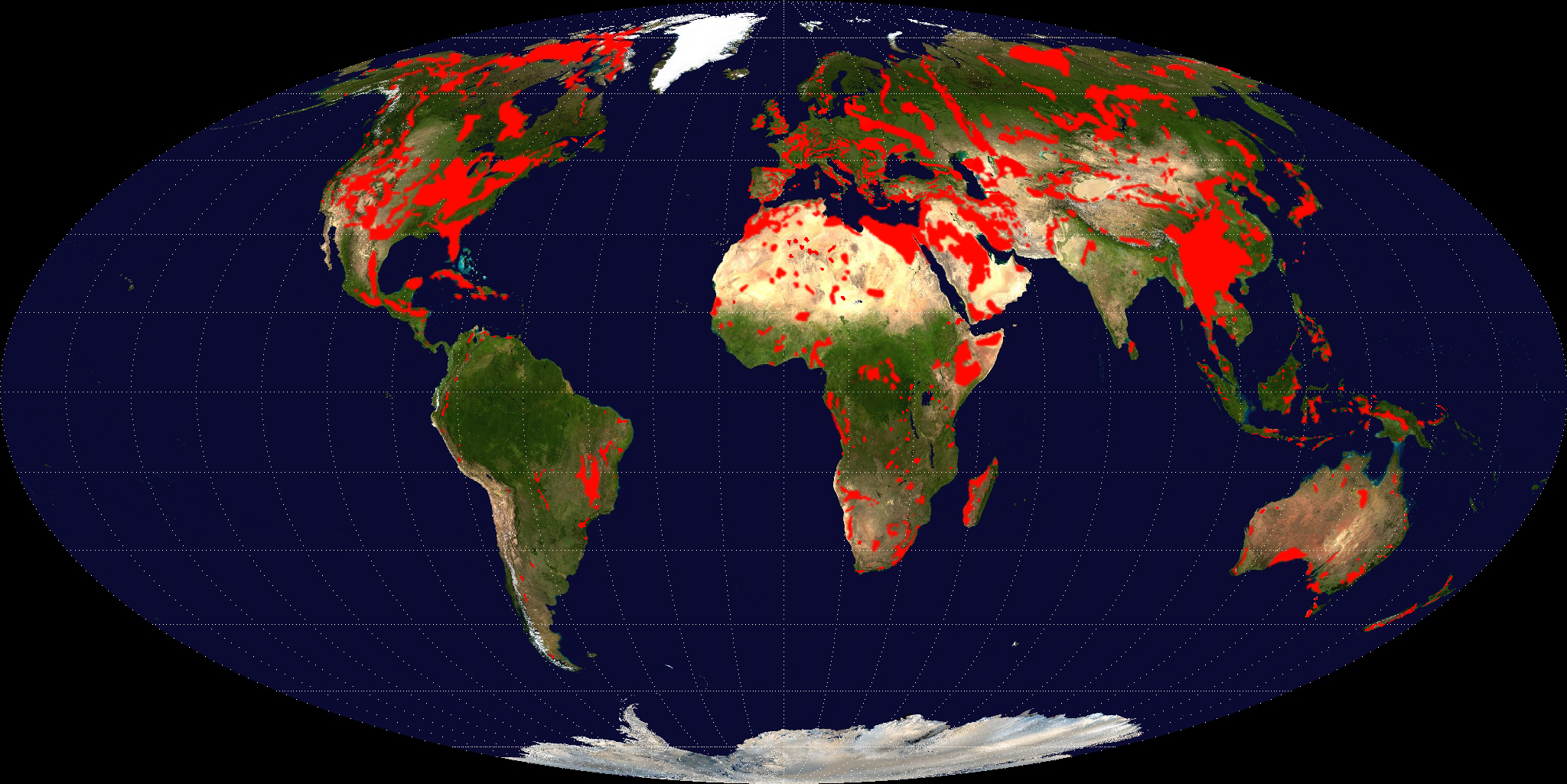 Global distribution of major outcrops of carbonate rocks (except Evaporites). Only partly distinctive karst landforms. Accuracy of mapping varies. Data from regional maps, see Datenbasis, above.